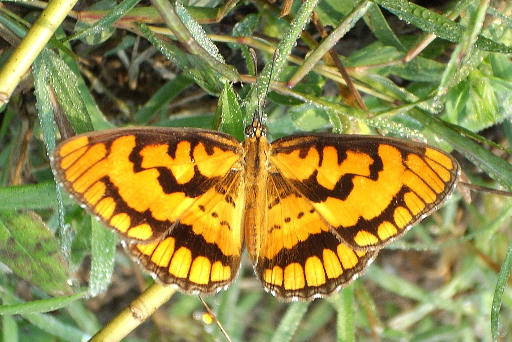 Joker butterfly Byblia ilithyia. Clicked in Gorewada Reserve Forest, Nagpur district, Maharashtra, India.